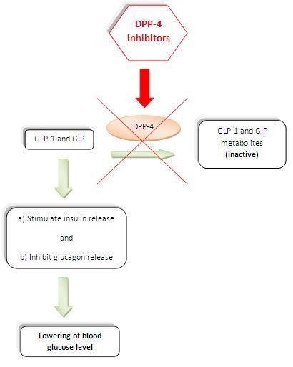 DPP-4 inhibitors inhibit DPP-4 and thus prolong the duration of GLP-1 and GIP activity, resulting in lower blood glucose level.